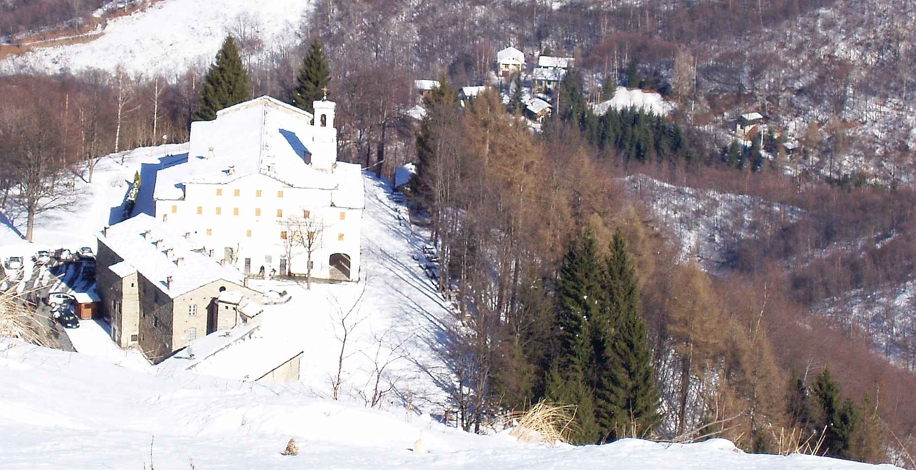 Valmala Sanctuary (CN, Italy)